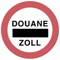 Diagram of road signs of Luxembourg